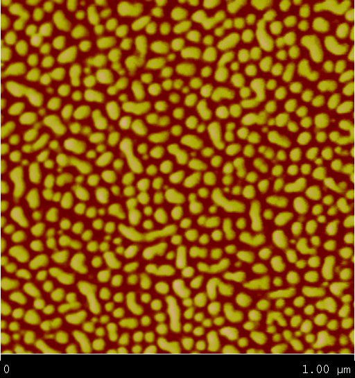 The light areas are polystyrene end block. The dark areas are hydrogenated poly(isoprene-co-butadiene) midblock. The somewhat irregular arrangement of these microphases is related to the procedure used to prepare the sample; it was cast rapidly from toluene solution and has therefore not achieved equilibrium arrangement of the microphases.